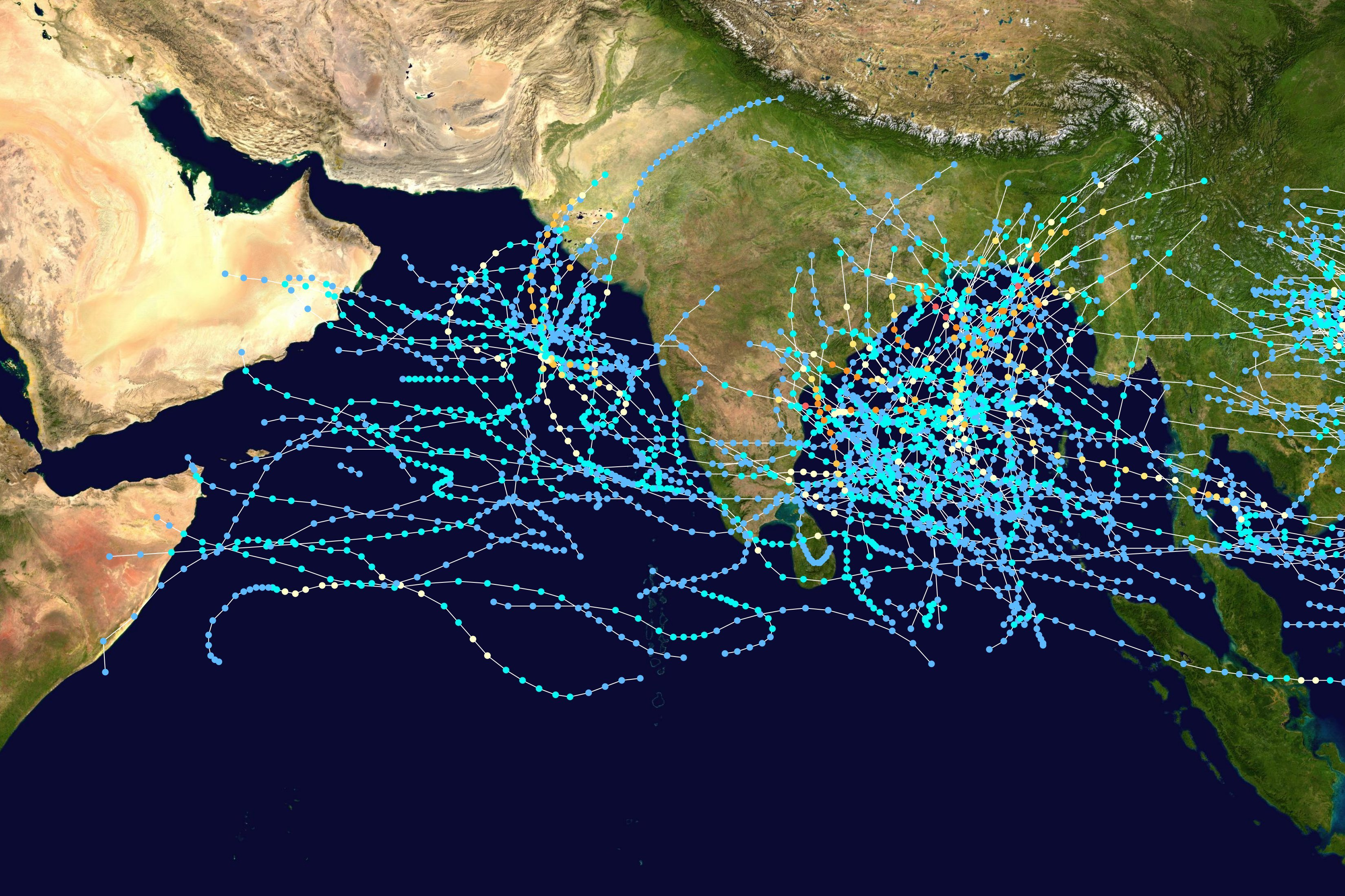 This map shows the tracks of all tropical cyclones monitored by the Joint Typhoon Warning Center in the North Indian Ocean from 1980 to 2005. The points show the locations of each storm at six-hour intervals. The colour represents the storm's maximum sustained wind speeds as classified in the Saffir-Simpson Hurricane Scale (see below), and the shape of the data points represent the nature of the storm. Saffir–Simpson hurricane wind scale Tropical depression≤38 mph≤62 km/h Category 3111–129 mph178–208 km/h Tropical storm39–73 mph63–118 km/h Category 4130–156 mph209–251 km/h Category 174–95 mph119–153 km/h Category 5≥157 mph≥252 km/h Category 296–110 mph154–177 km/h Unknown Storm typeTropical cycloneSubtropical cycloneExtratropical cyclone / Remnant low / Tropical disturbance